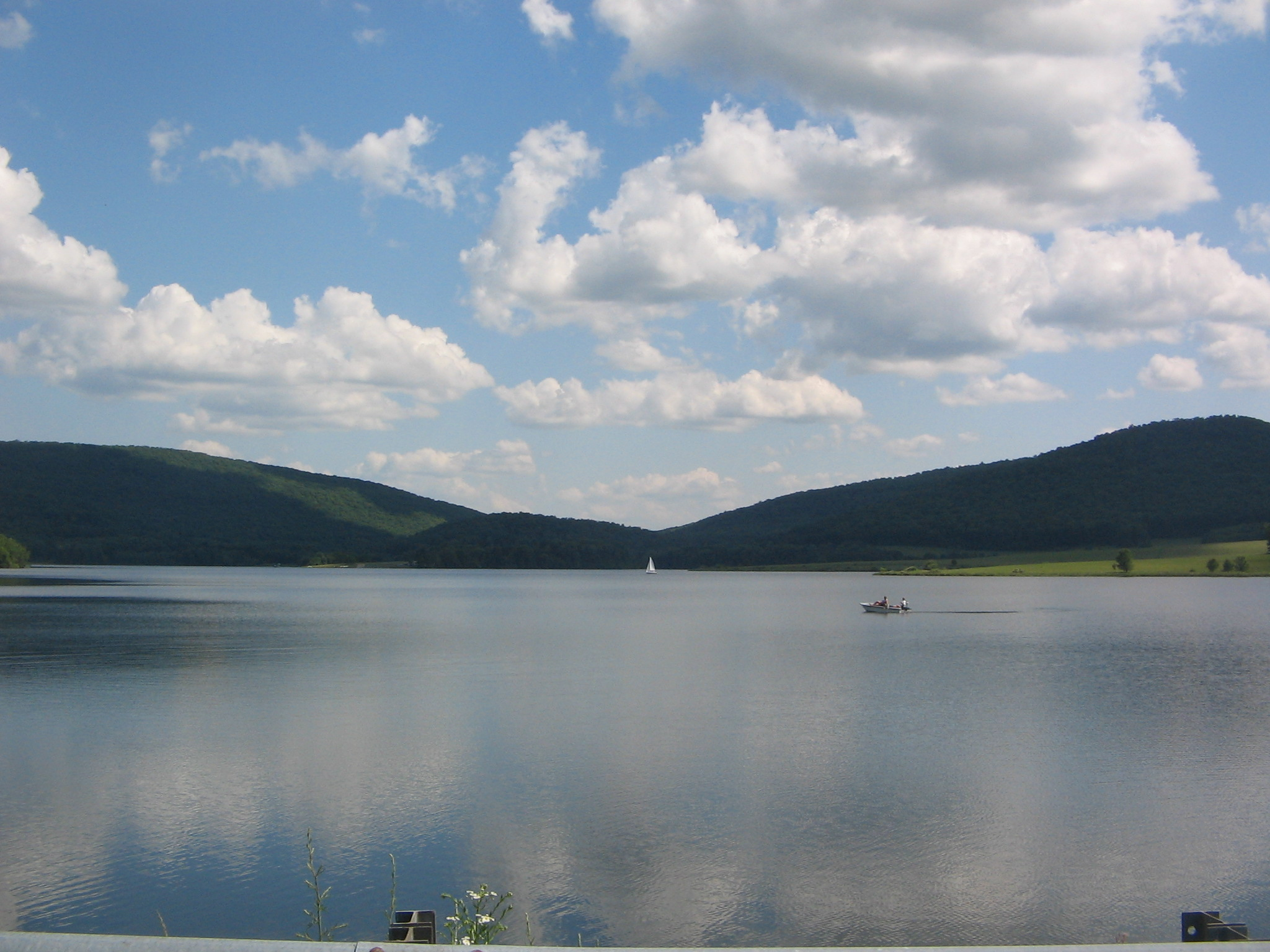 Rose Valley Lake (looking north), Gamble Township, Lycoming County, Pennsylvania, USA